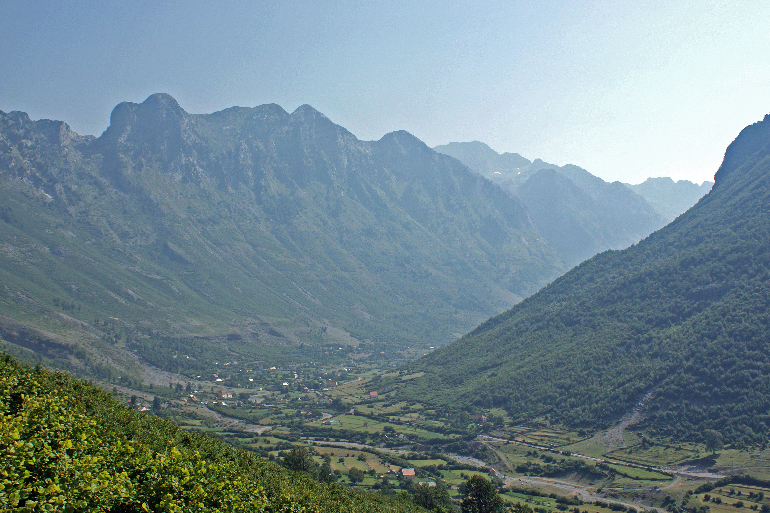 Village Boga in Shkrel, Albanian Alps (Malësia e Madhe) – Bjeshkët e Namuna